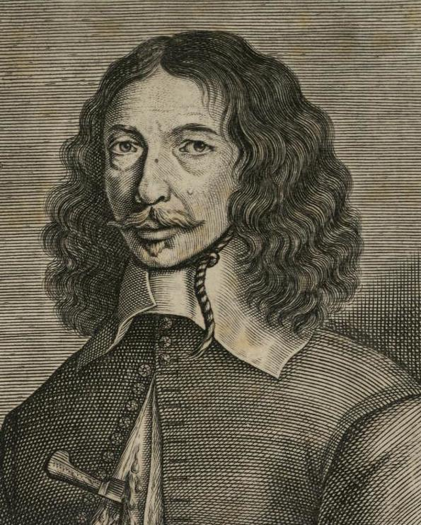 A portrait from the Welsh Portrait Collection at the National Library of Wales. Depicted person: Philip Powell – Welsh martyr